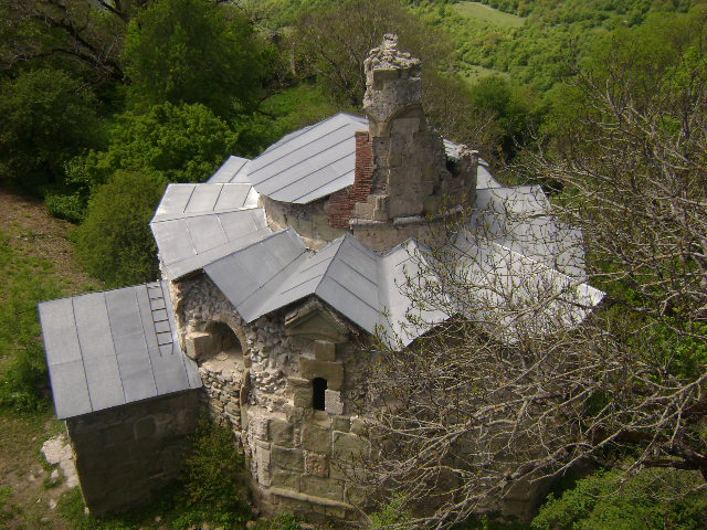 Bochorma st. George church